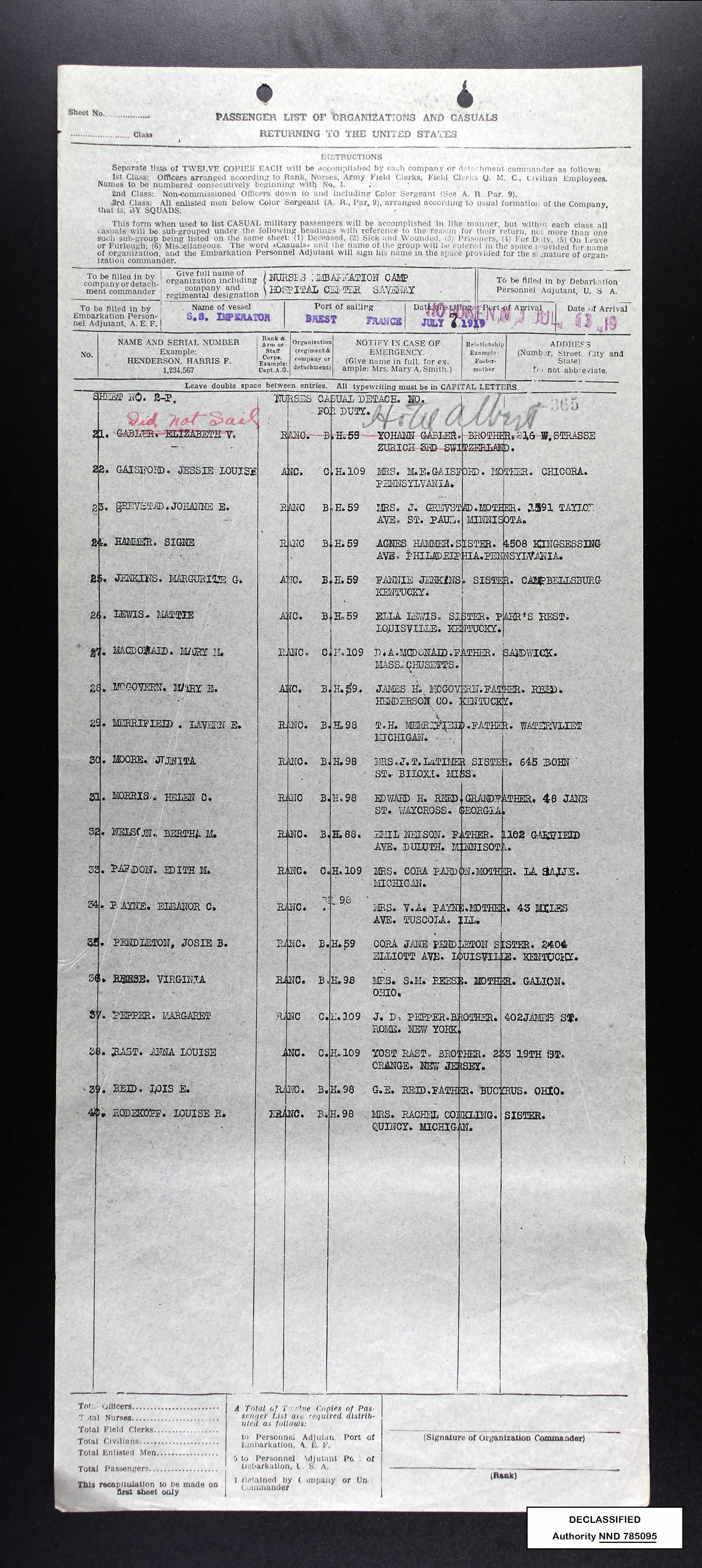 A list of names returning to the United States from France in July of 1919.